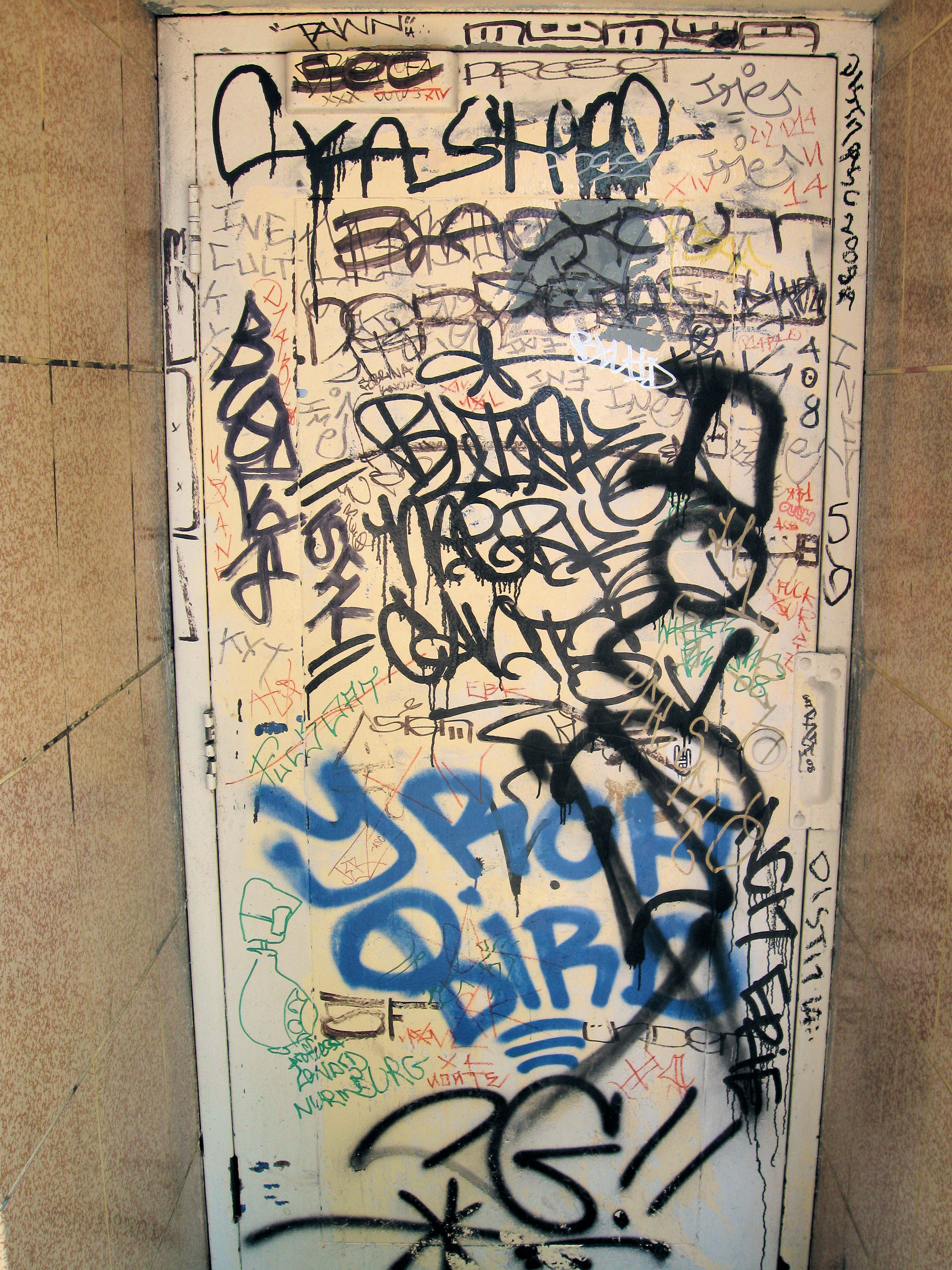 A heavily graffiti tagged doorway in downtown Seattle, Washington.